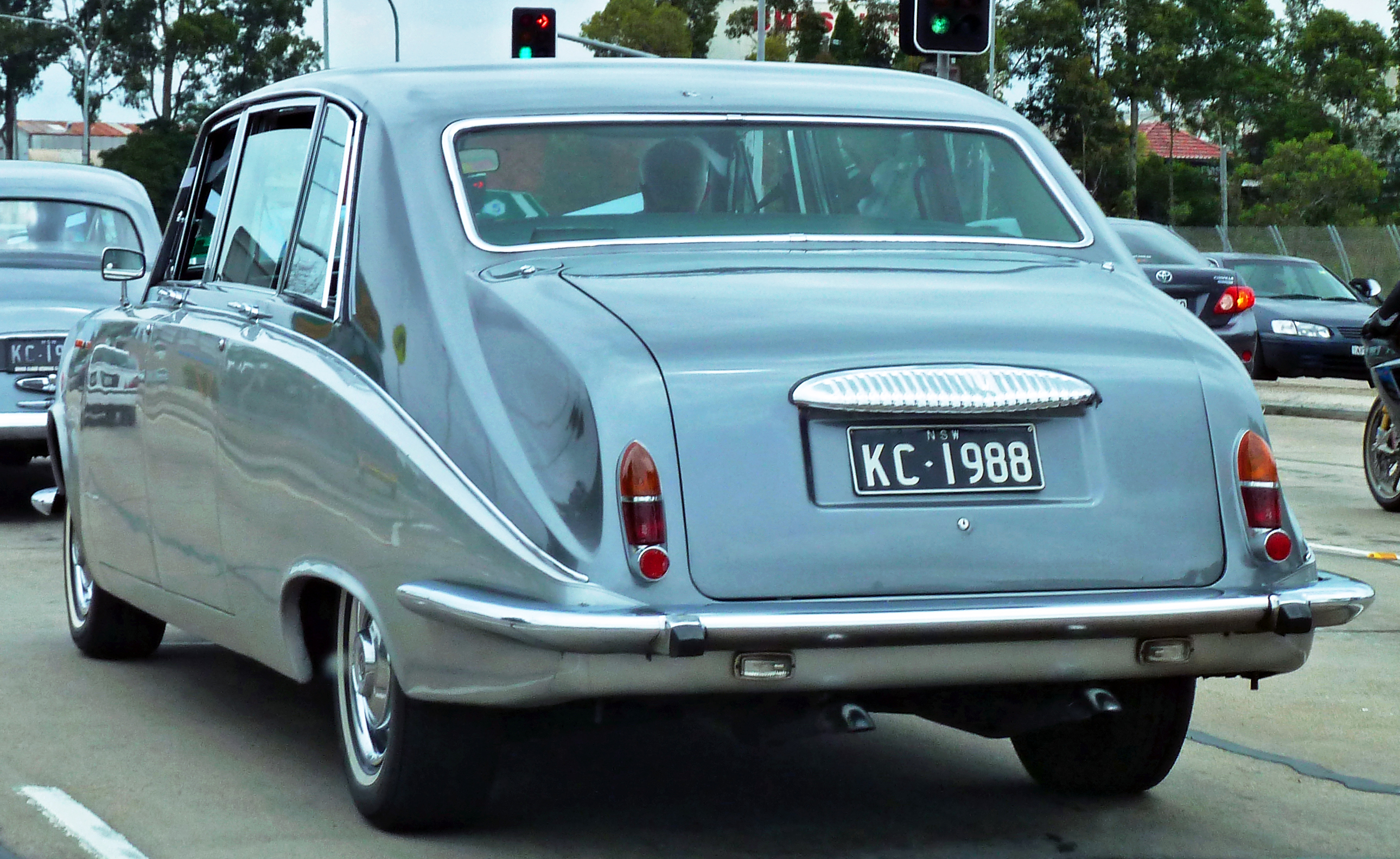 1981 Daimler DS420 sedan. Photographed in Padstow, New South Wales, Australia.